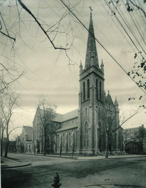 St. Patrick's Parish was formed in 1823, the first Catholic parish in Rochester. This was the third church building for the parish, which were all located at North Plymouth Avenue and Platt Street. This building was designed by Brooklyn architect Patrick Keely. The cornerstone was laid in 1864. Though uncompleted, the church was opened in 1869 and it was dedicated the following year. In the meantime, Rochester was named a diocese in 1868 and St. Patrick's was named the cathedral. The chancel was expanded and the spire added to the tower in 1898. The Eastman-Kodak Company built its headquarters adjacent to the cathedral in 1914. In time, their campus expanded and the diocese decided to sell the cathedral property to Eastman-Kodak for their continued expansion. The cathedral church was closed and dismantled in 1937. St. Patrick's Parish converted their former social hall into a church and continued in existence until 1976 when it was closed.